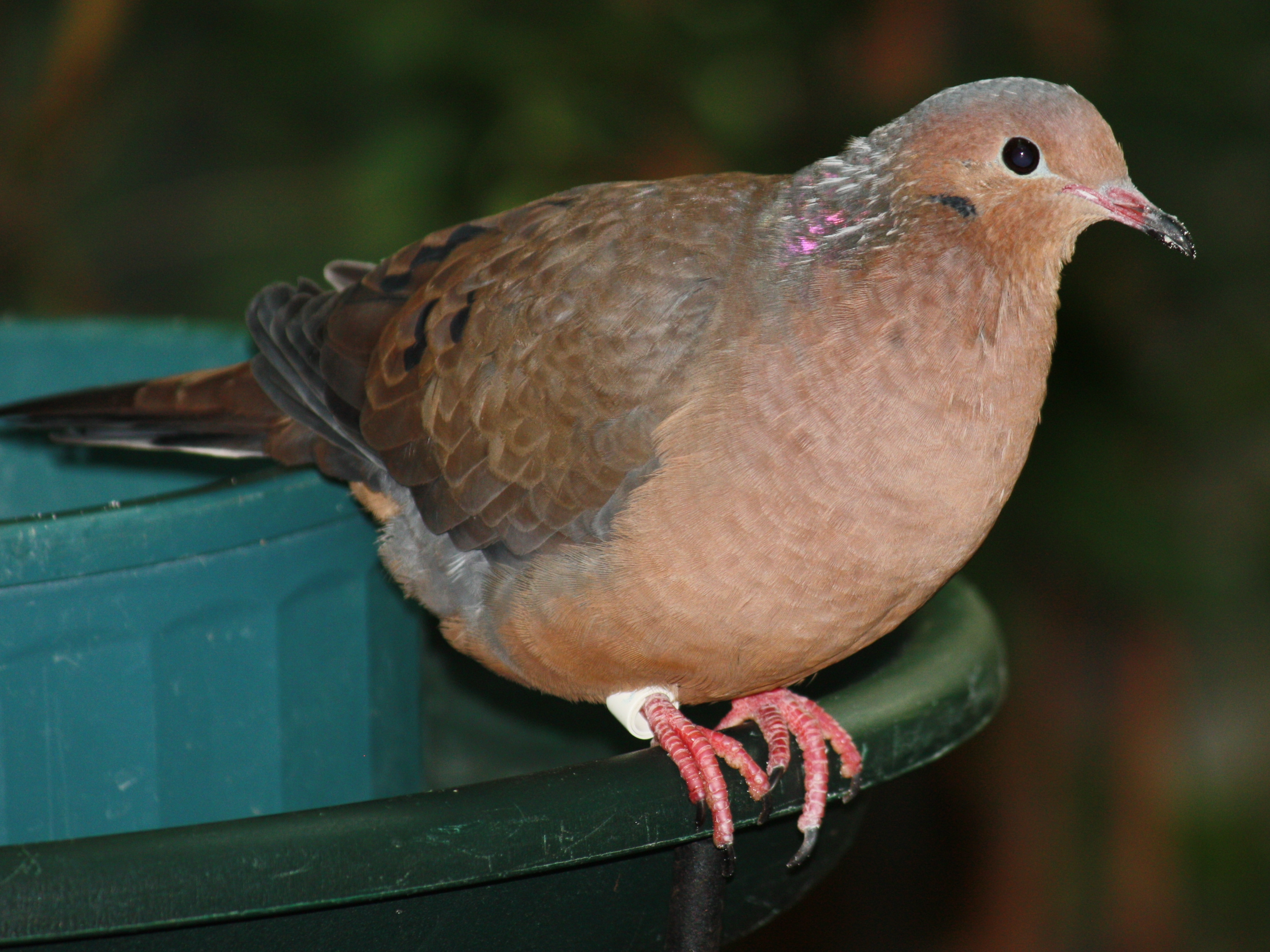 Socorro Ground Dove Zenaida graysoni at the Louisville Zoo